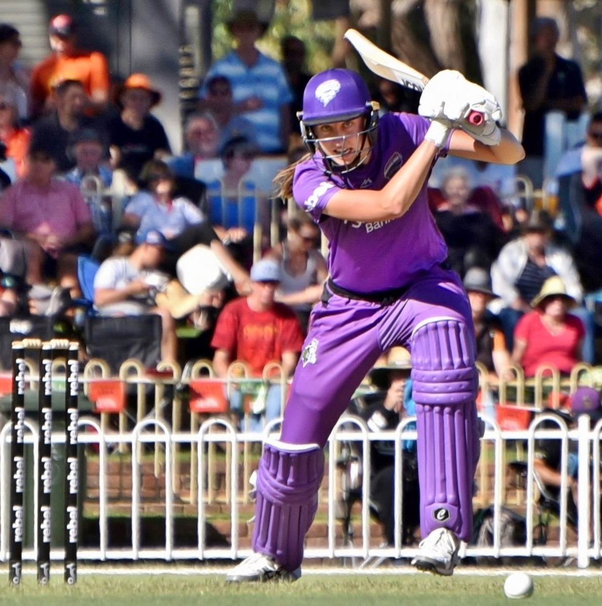 Hobart Hurricanes batter Erin Fazackerley hits out during her Player of the Match- (and match-) winning innings of 58 against the Perth Scorchers, in a WBBL match at Lilac Hill Park in Perth